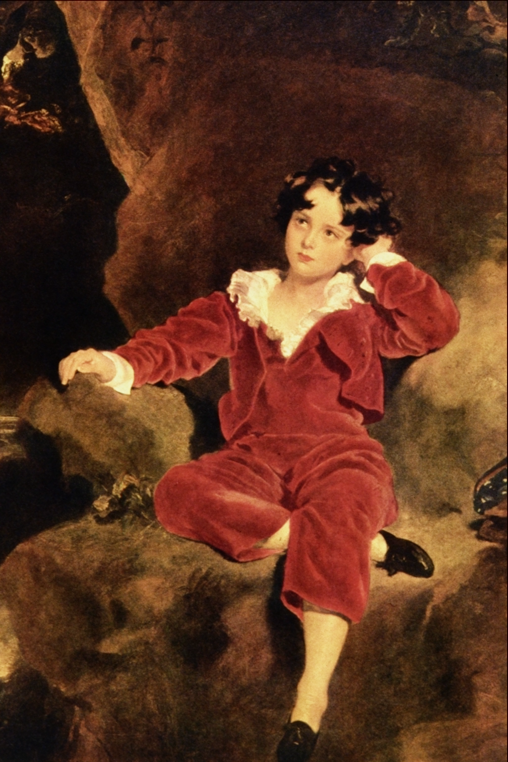 Master Charles William Lambton (also known as "The Red Boy")